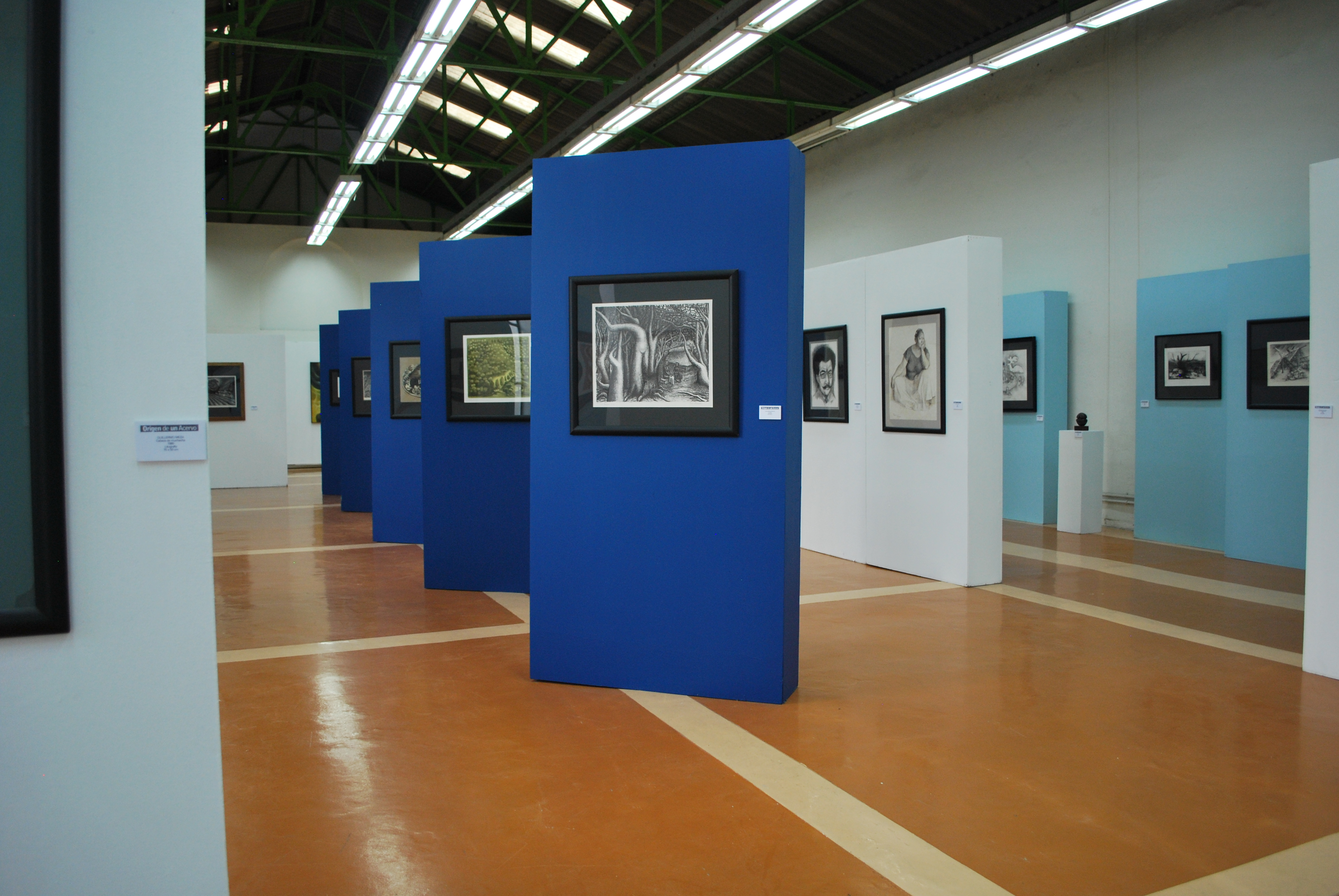 works mounted for the Origen de un Acervo exhibition of the Fundacion Cultural Pascual